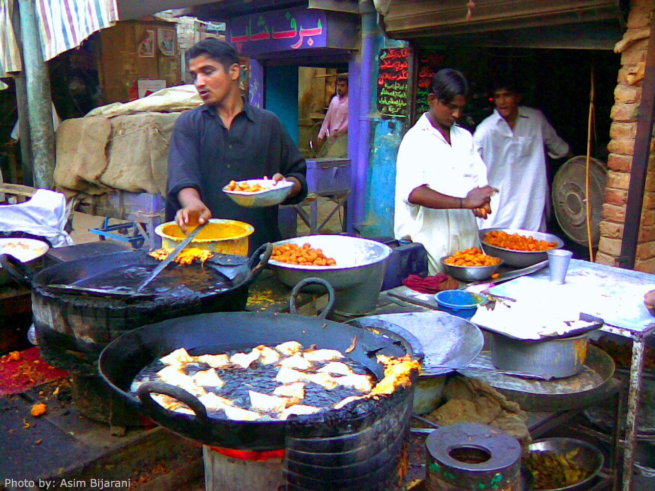 Very famous samosa making at the Hathidar road Shikarpur sindh